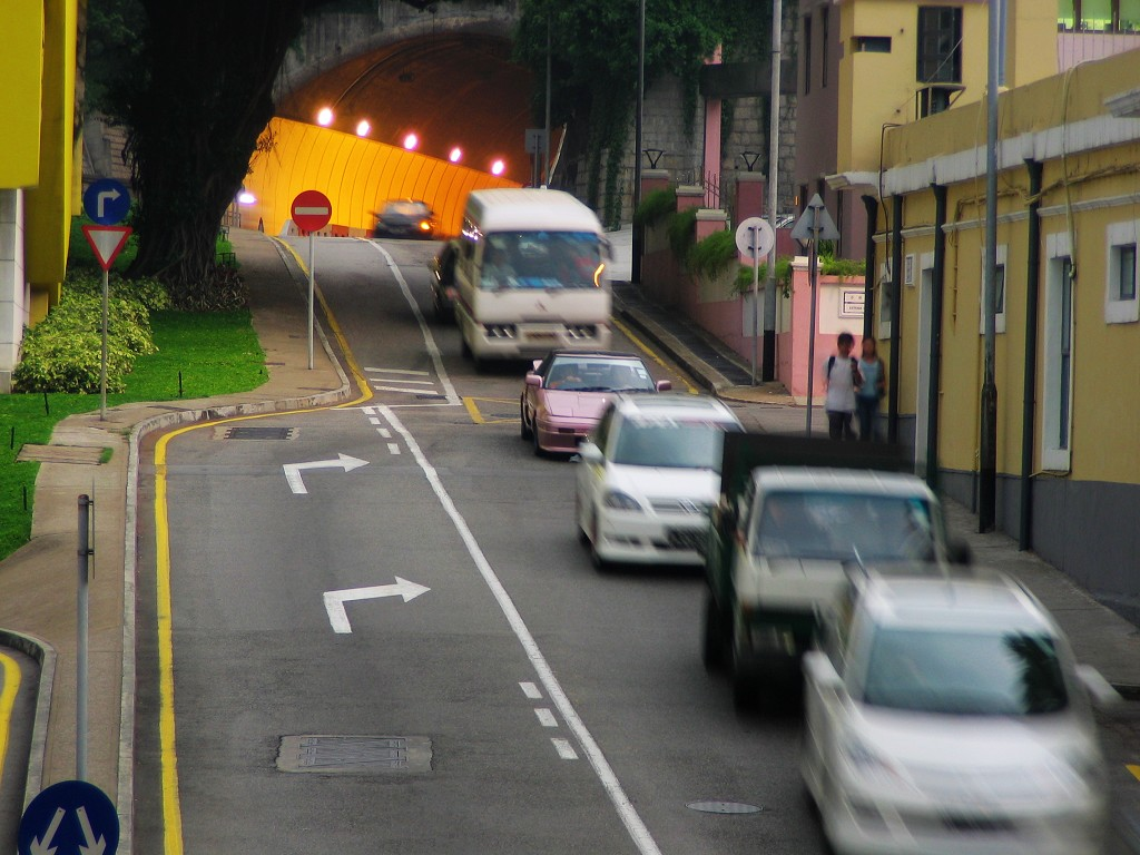 Guia Tunnel of Macau